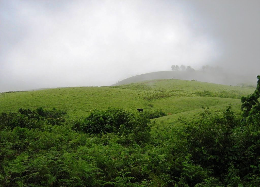 Green meadows of Vagamon, Idukki district, Kerala.